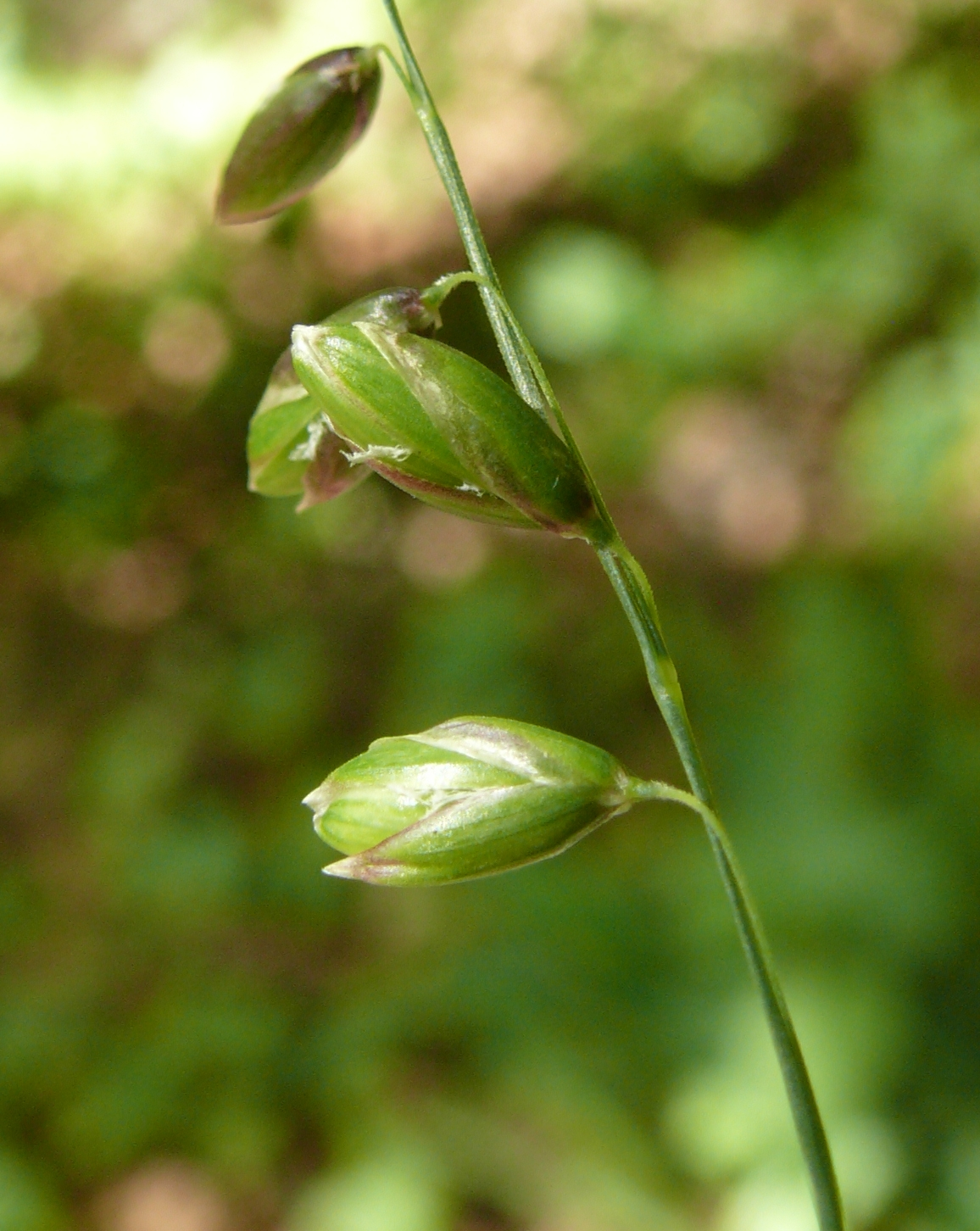 Melica picta,Hohenlohe